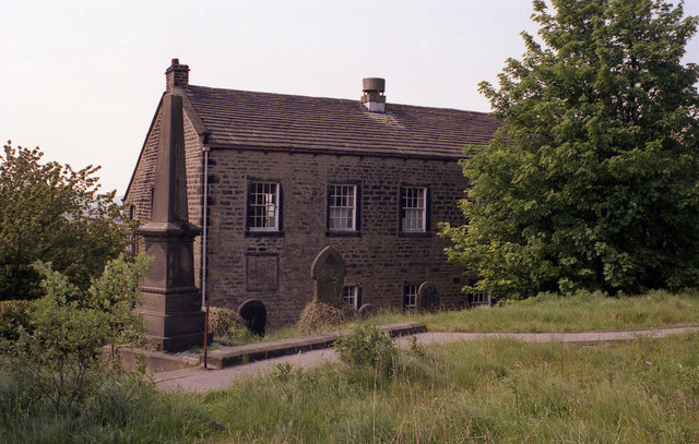 Inghamite church, Winewall, near Colne, Lancashire. There are only some four or five Inghamite churches left anywhere now, all in the Pennine area, but this fine example at Winewall was still in use when photographed in 1992. Sadly it closed in 2001, and it is believed that now in 2008 only two Inghamite chapels survive, on in Salterforth and the one at Wheatley Lane.